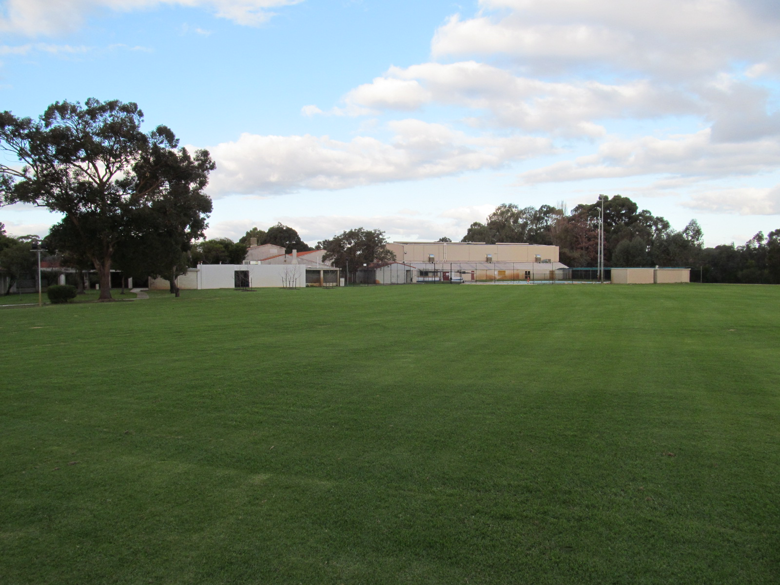 View of Rossmoyne Senior High School from the school's oval.